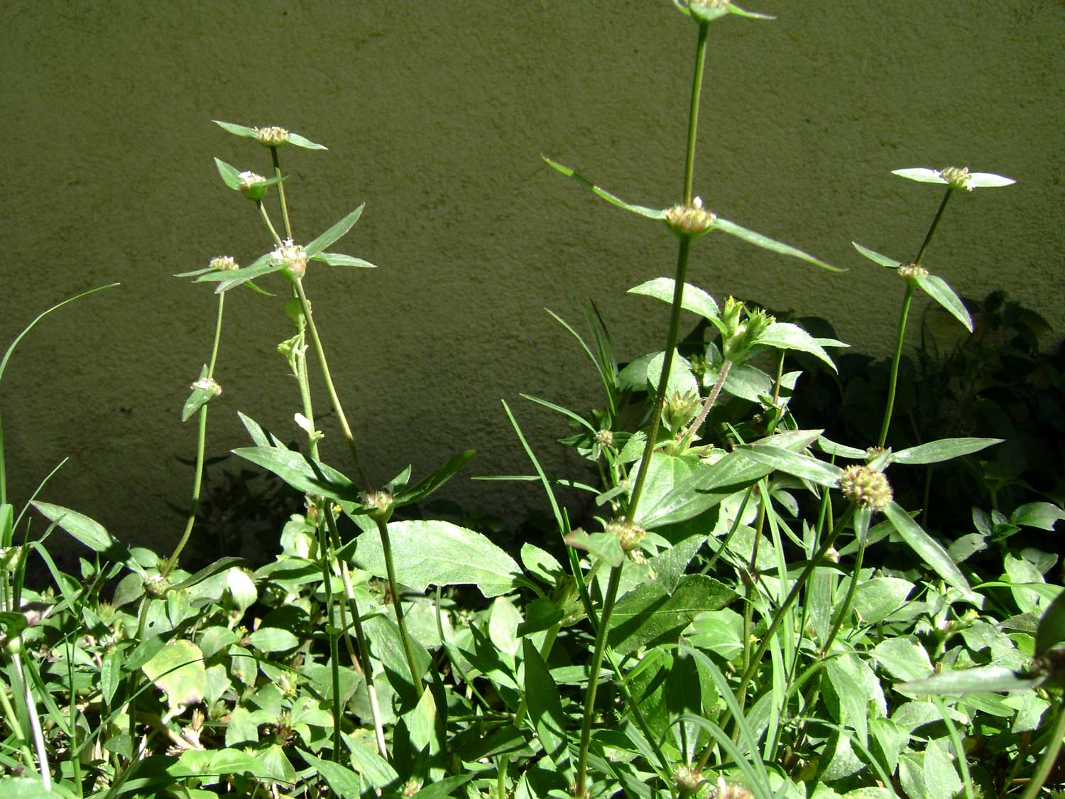 Euphorbia hirta, Chamaesyce hirta; (sākisi) weed in Tongan garden